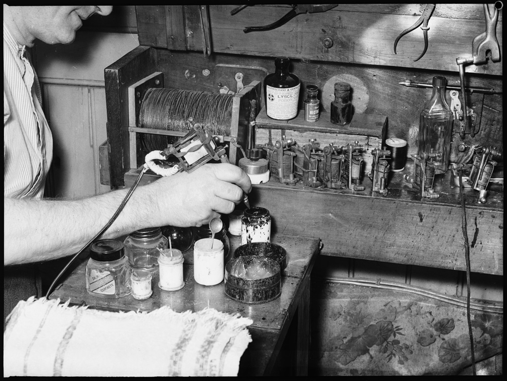 Tattoo equipment, Fred Harris Studio, Sydney, Australia, by Ray Olsen, 1937, State Library of New South Wales ON 388/Box 030/Item 083